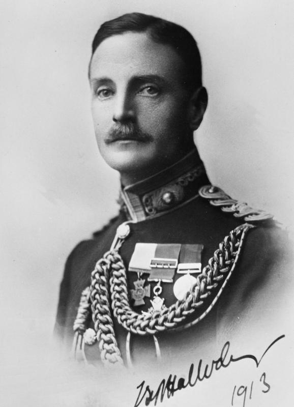 Victoria Cross Winners- Pre 1914. Portrait of Lewis Stratford Tollemache Halliday, awarded the Victoria Cross: Peking, 24 June 1900.